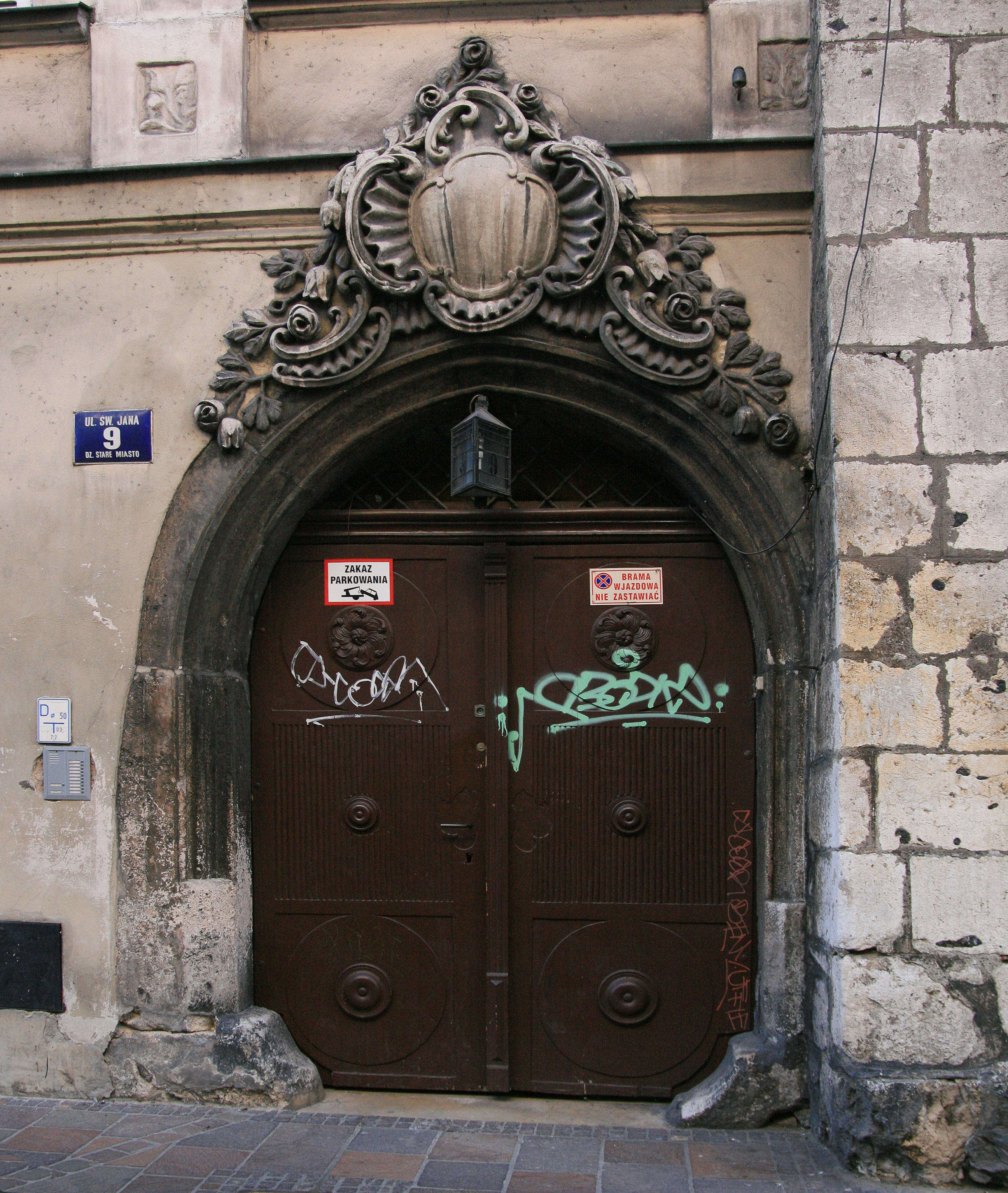 Gothic portal (XV c) with cartouche (XVIII c) of house on St. Jana street 9, Krakow